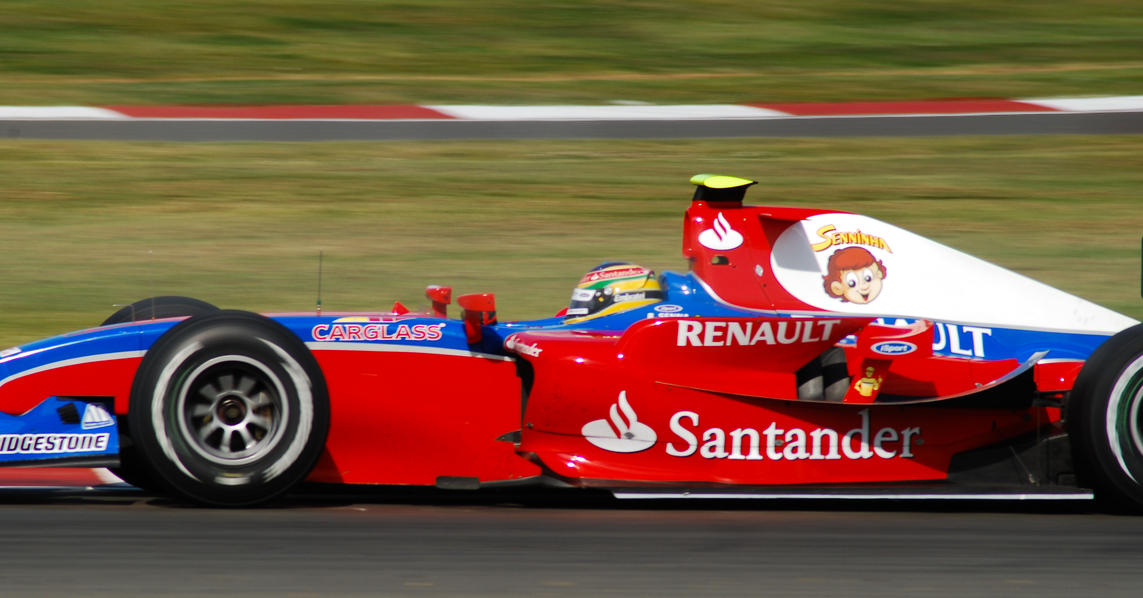 Bruno Senna driving for iSport International at the Silverstone round of the 2008 GP2 Series season.